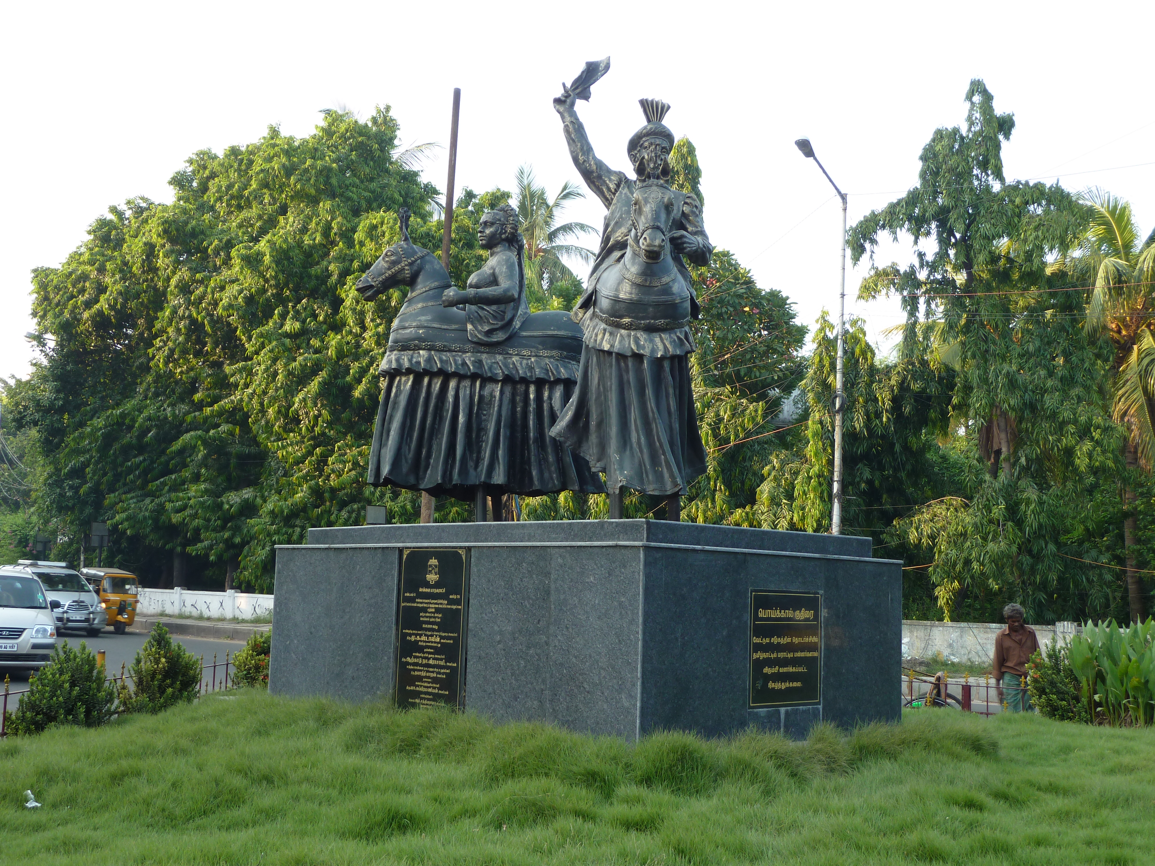 The statue is about Dummy horse dance form of Tamil Nadu, India. The statue is situated in college road, Chennai, India.